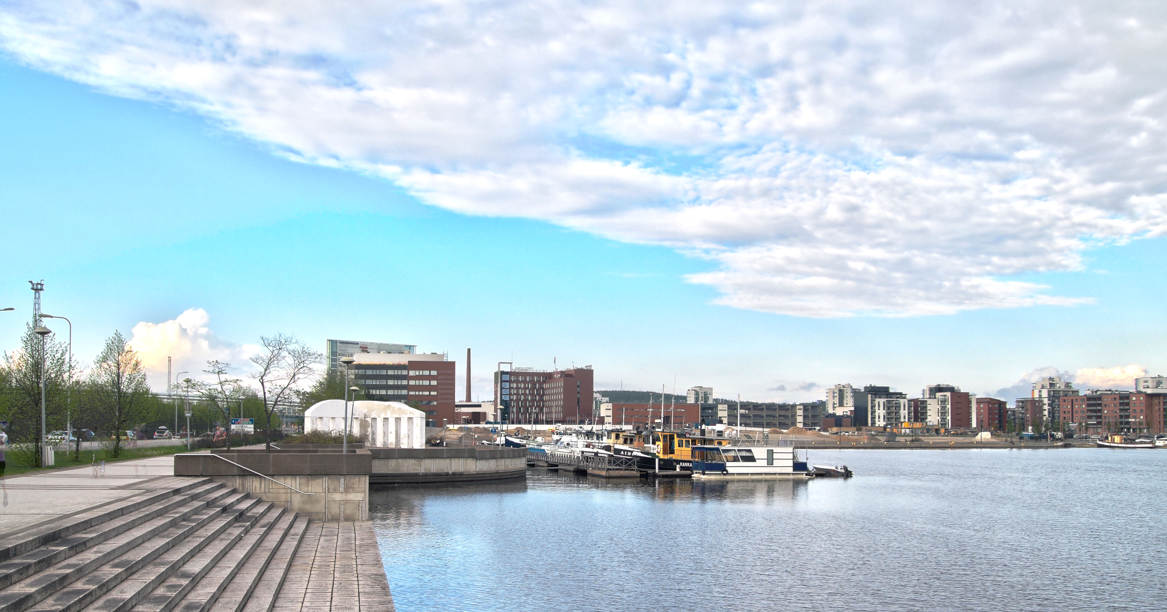 View to Lutakko and Jyväsjärvi. This photograph was taken with an Olympus E-PL1